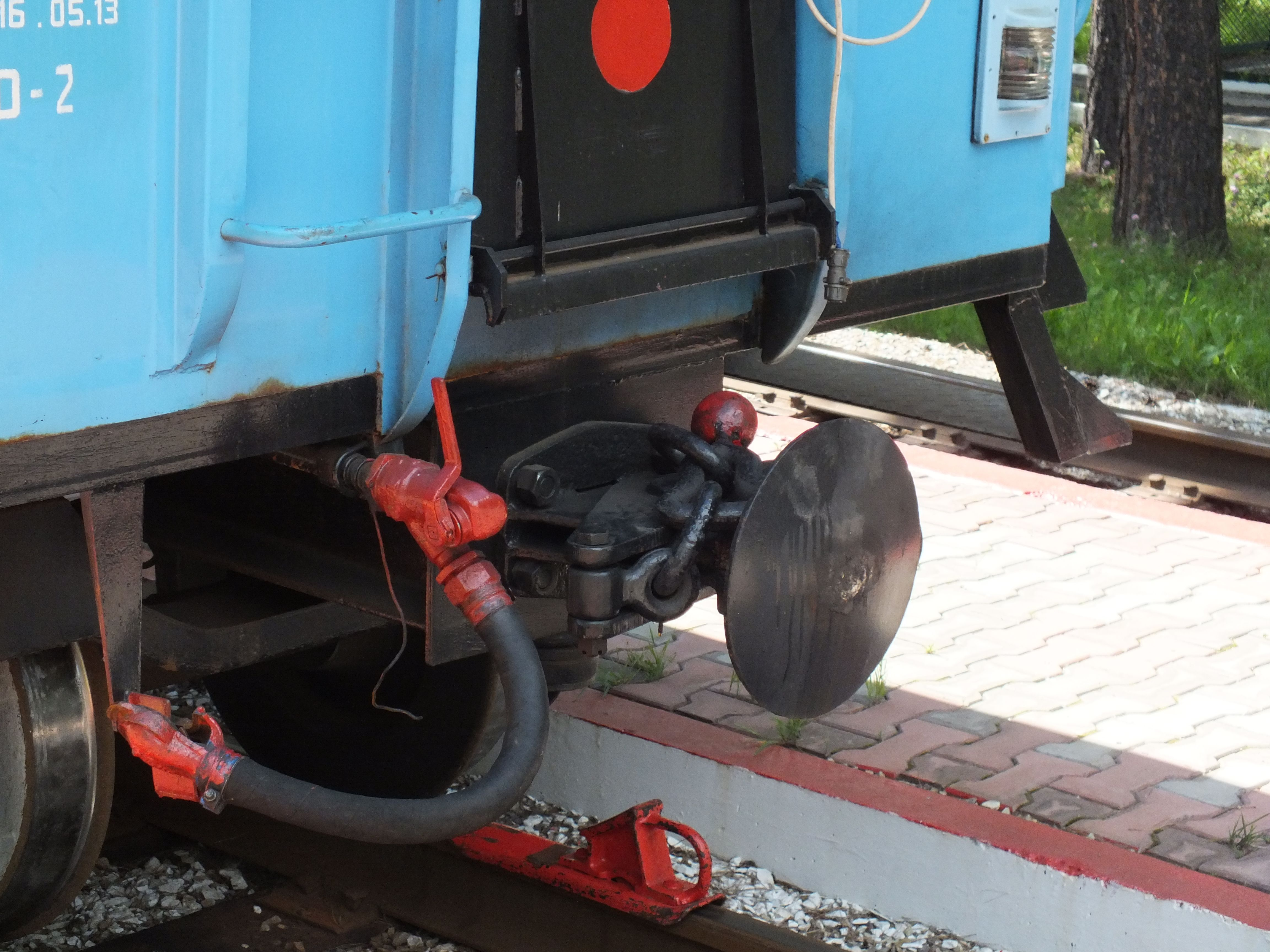 Malaya Dalnevostochnaya, Khabarovsk